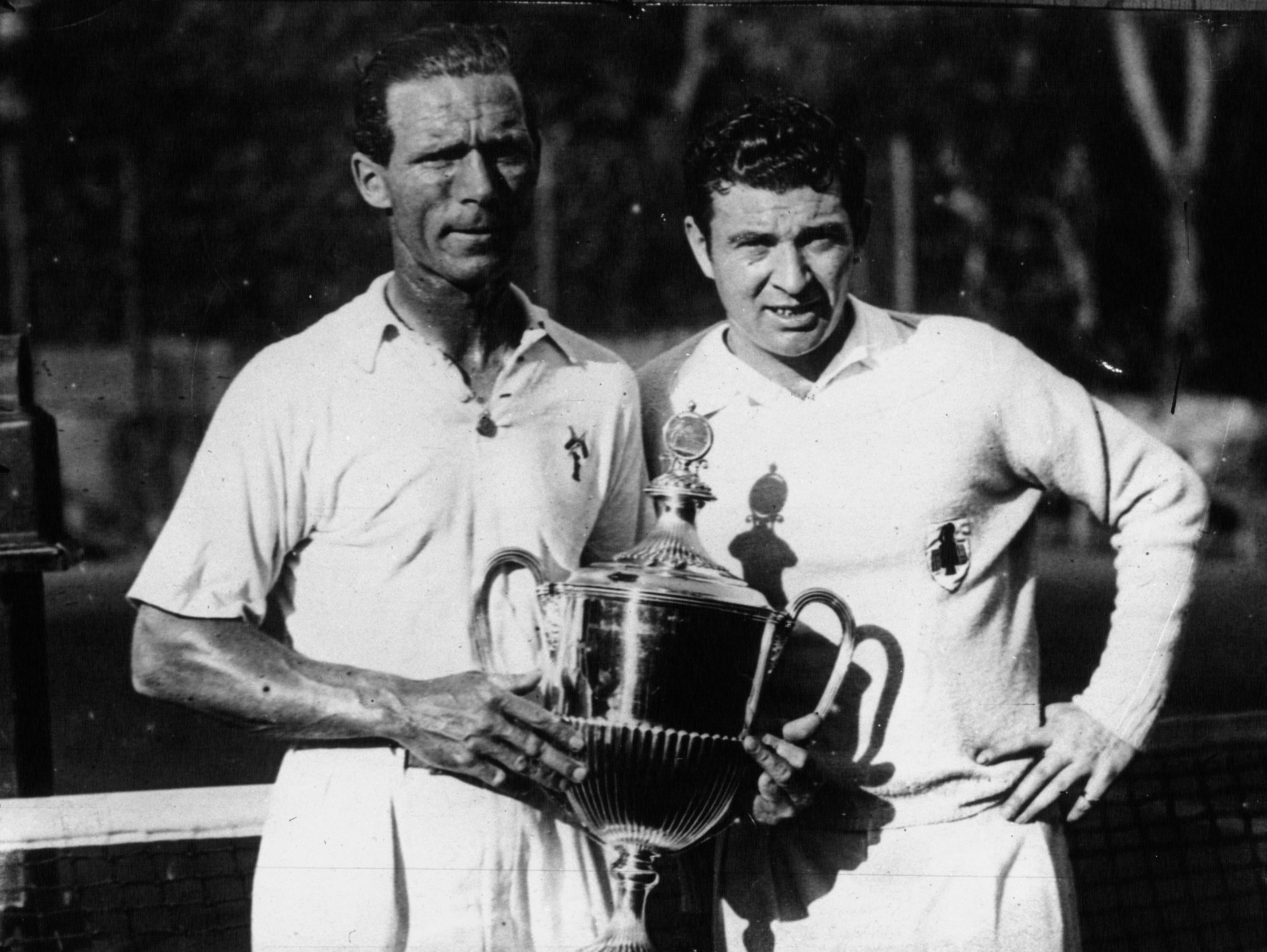 Tennis players Karel Koželuh (left) and Martin Plaa at the Beaulieu Championships in 1932.